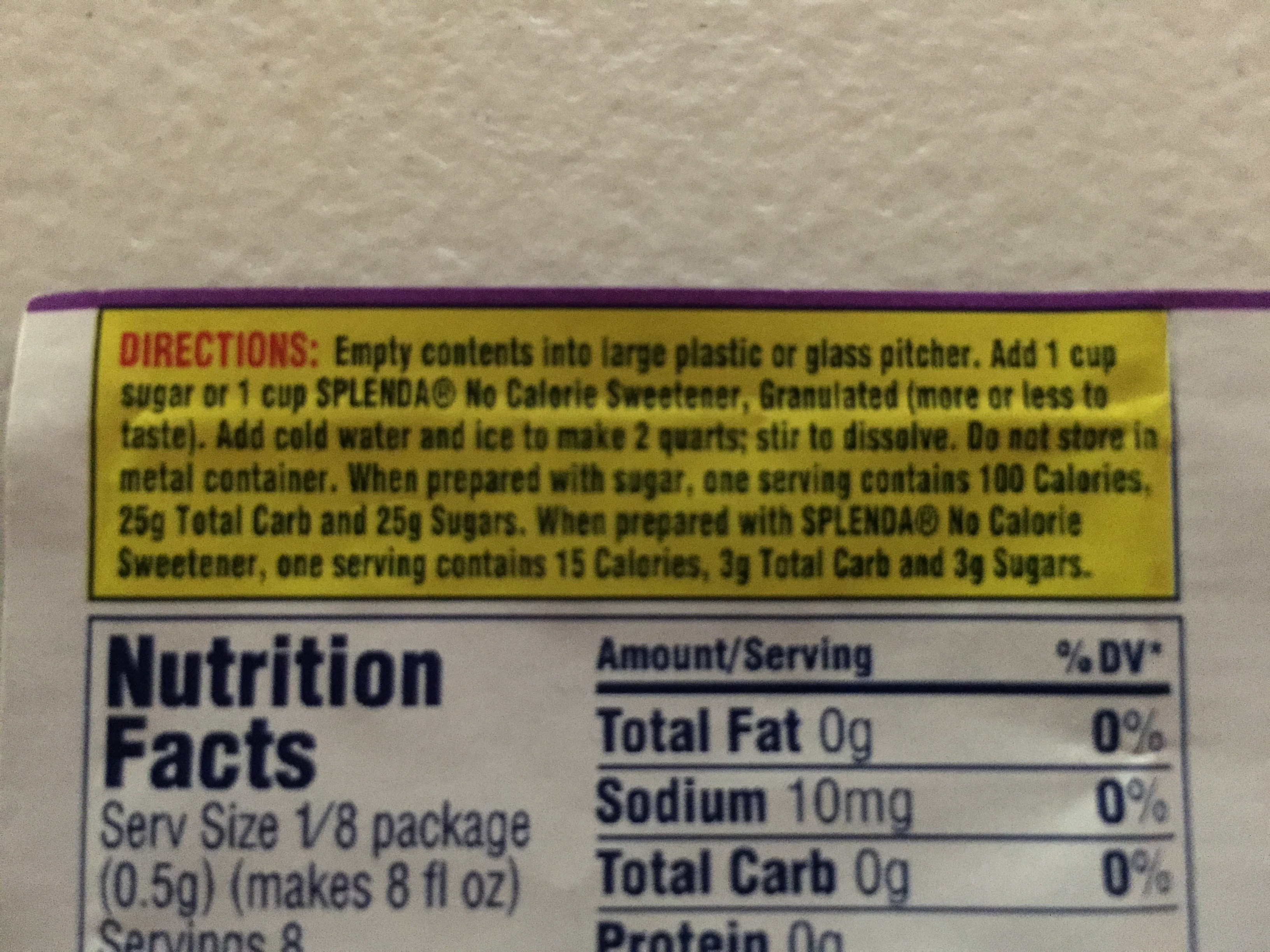 Directions form a single pack of Kool-Aid, Add water and ice (HOW MUCH)???